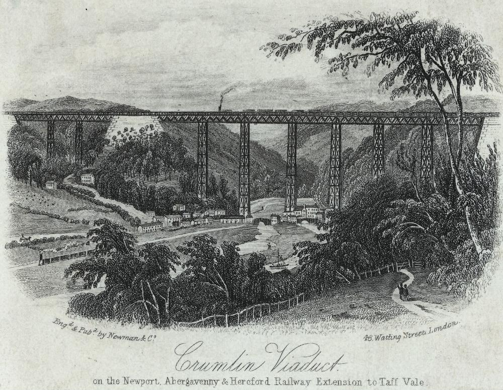 Abstract: It shows a train crossing the viaduct and a row of houses.